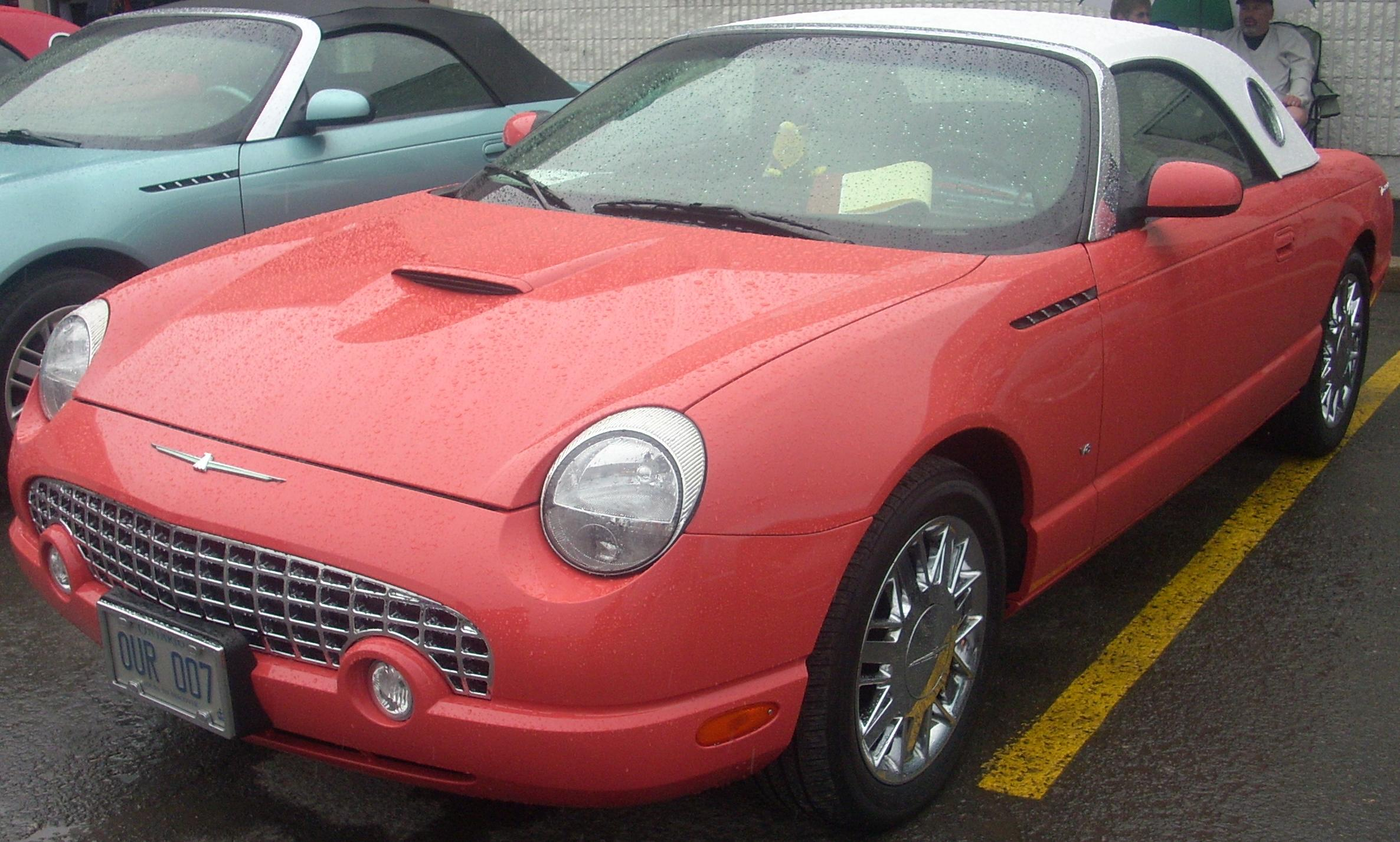 Ford Thunderbird photographed at the 2009 Sterling Ford Ottawa Auto Show.